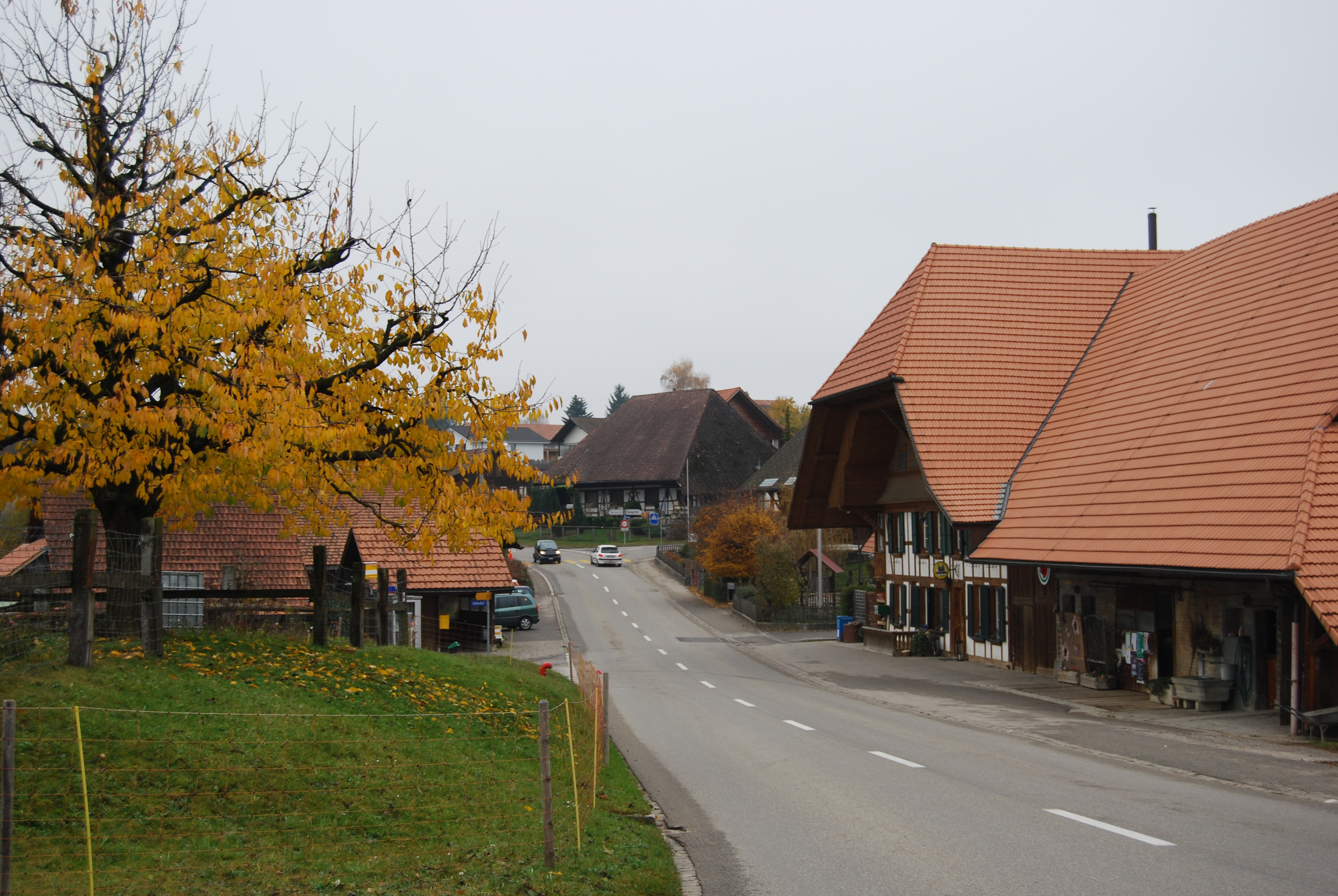 Zuzwil, canton of Bern, SwitzerlandEsperanto: Zuzwil, Kantono Berno, Svislando